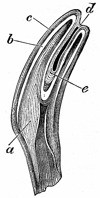 Foretooth of a horse. a: osseous tissue b: dentin c: parodontium d: Kunde